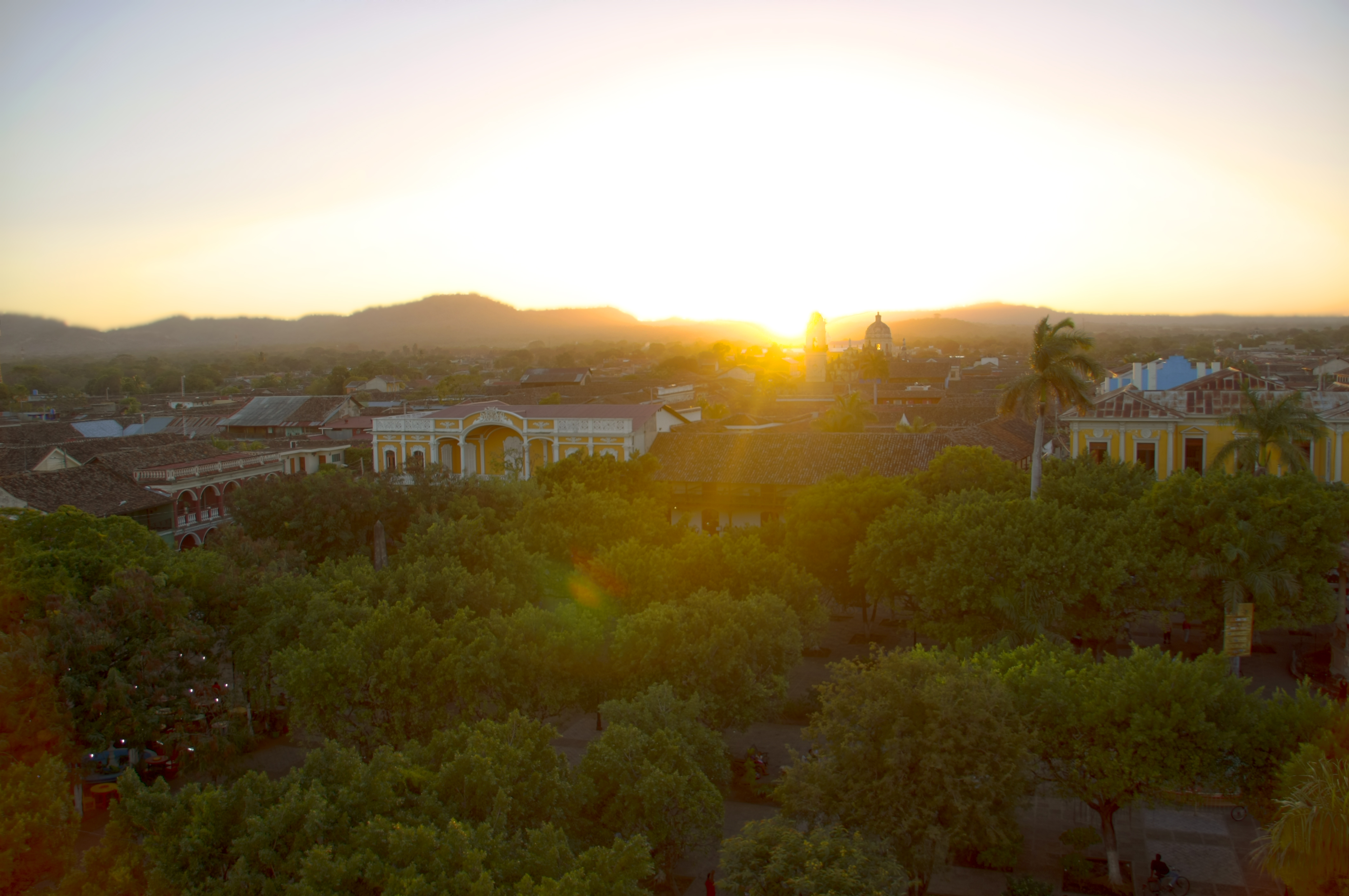 View of Granada from Catedral de Granada Bell Tower at sunset in HDR